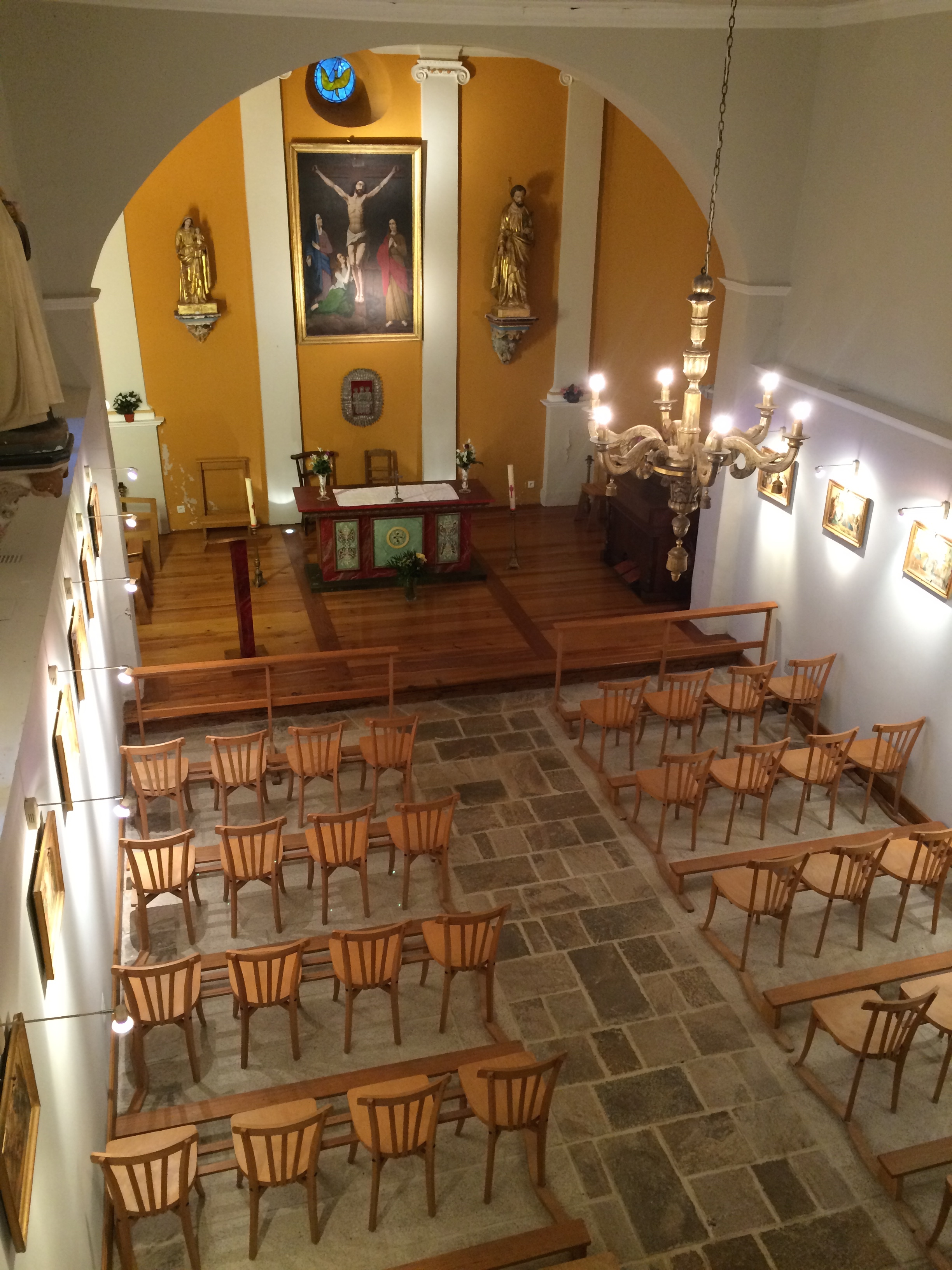 Interior of the parish church at L'Hospitalet-près-l'Andorre, in southern France.